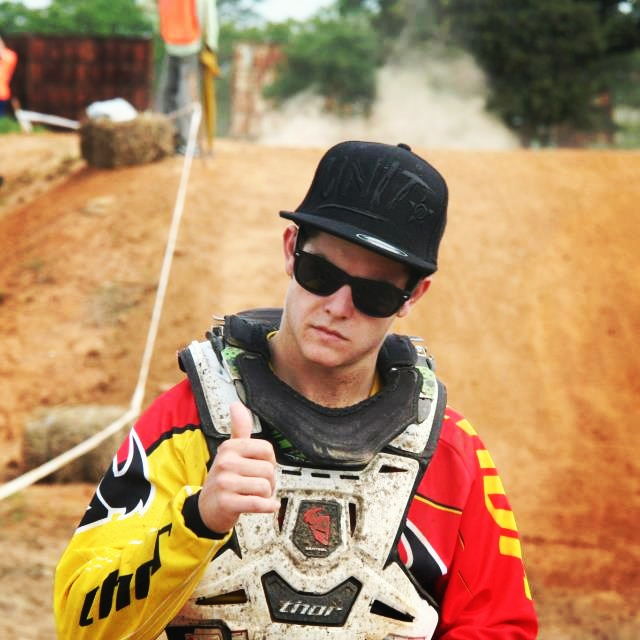 Image for Jesse Wright profile page